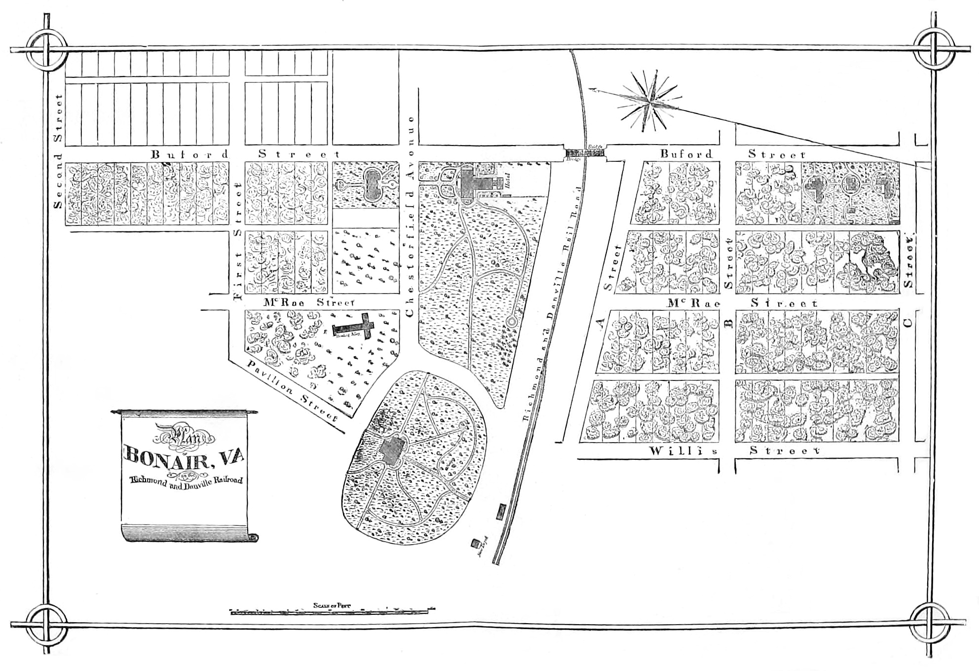 Map of Bon Air, Virginia, from 1882, part of a tourist pamphlet issued by the Richmond & Danville Railroad, which promoted and serviced the resort town in Chesterfield County, Virginia in the late 19th century. Buildings noted on the map include the Depot, the Bon Air Hotel and Annex, and the Pavilion.